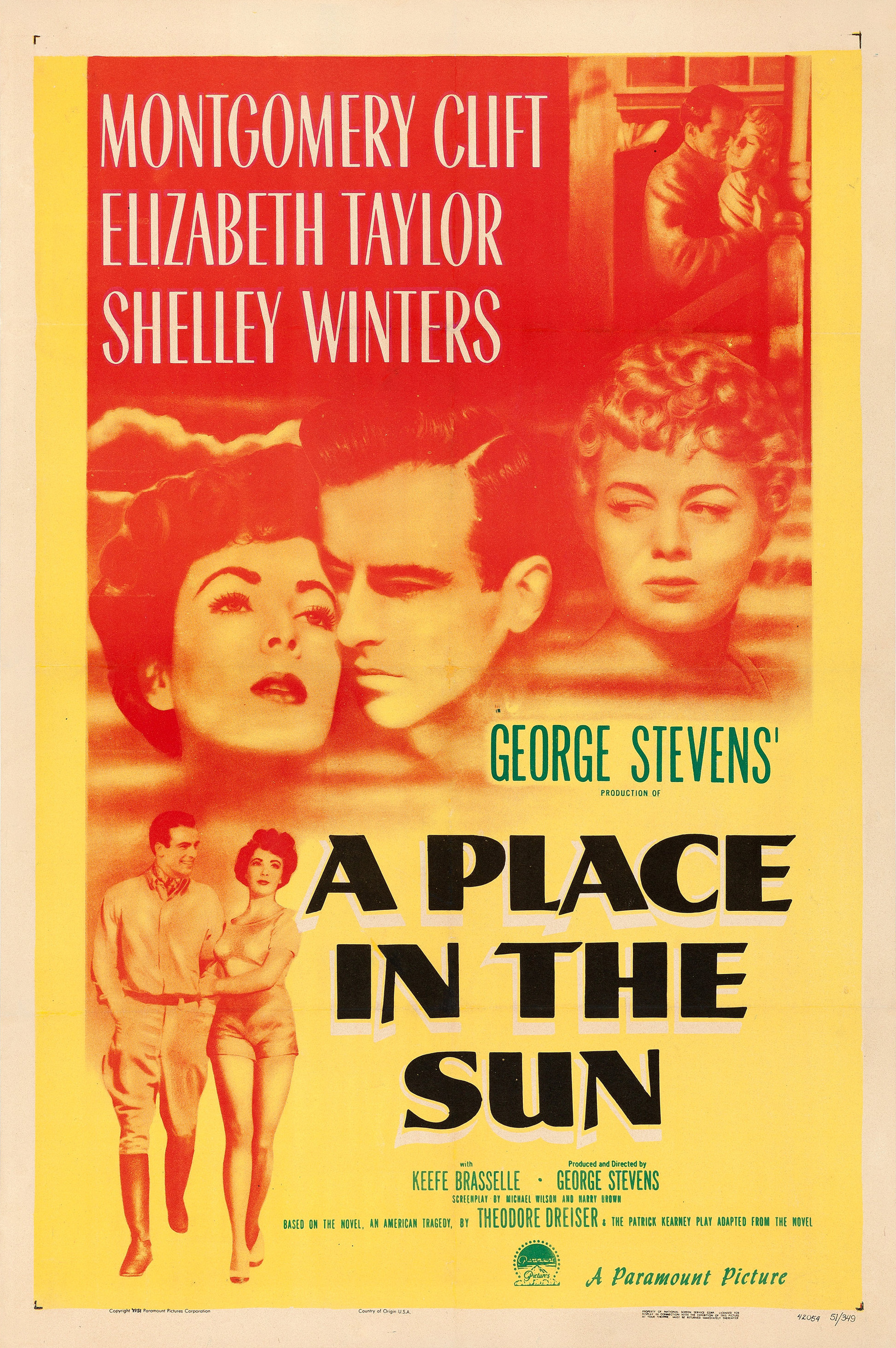 Theatrical poster for the initial US theatrical release of the 1951 film A Place in the Sun.